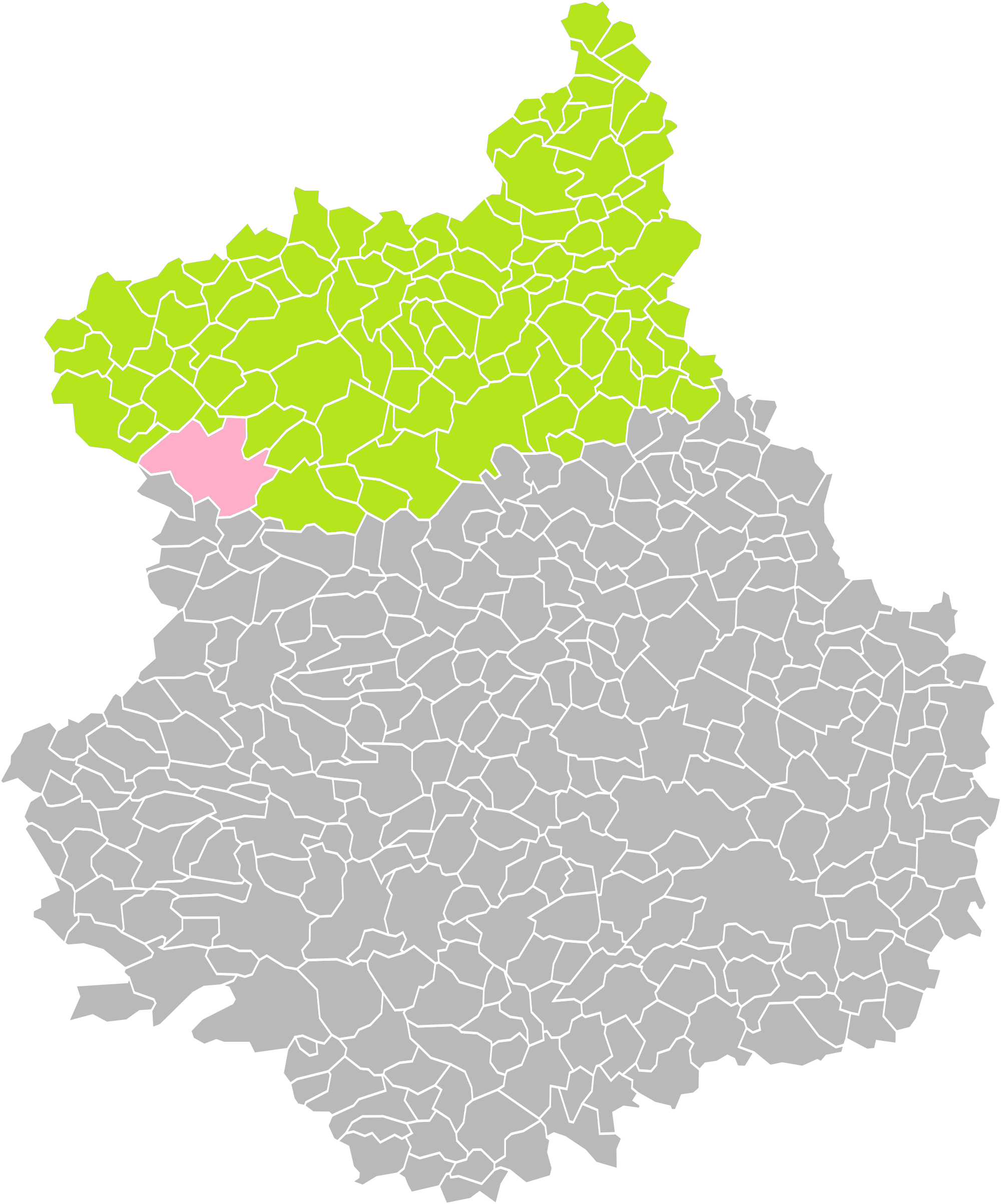 Location of the commune of Senonches in the arrondissement of Dreux (Eure-et-Loir)